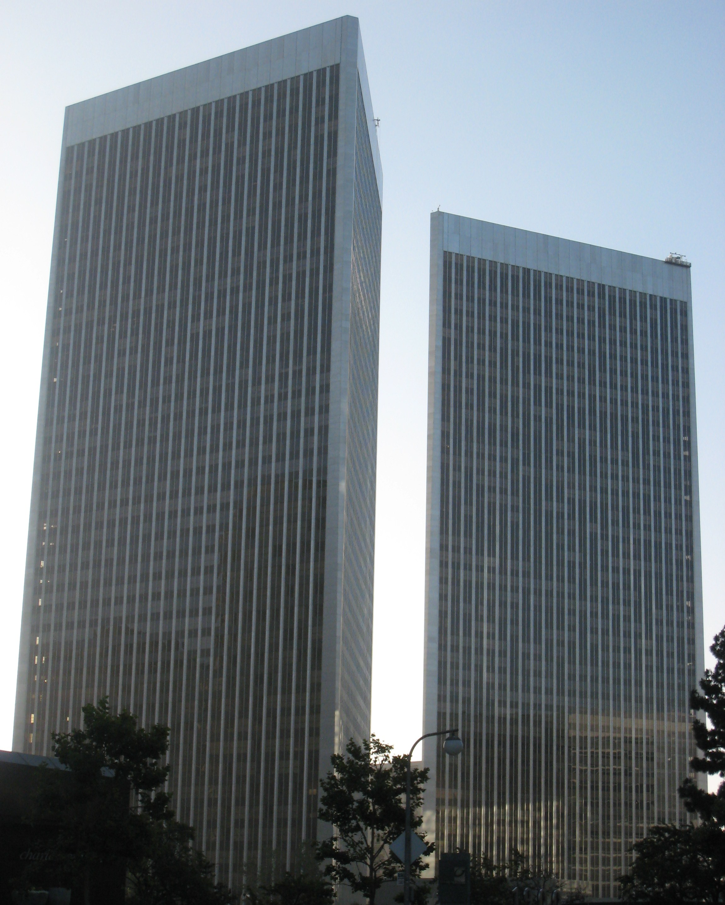 Century Plaza Towers in Century City, California